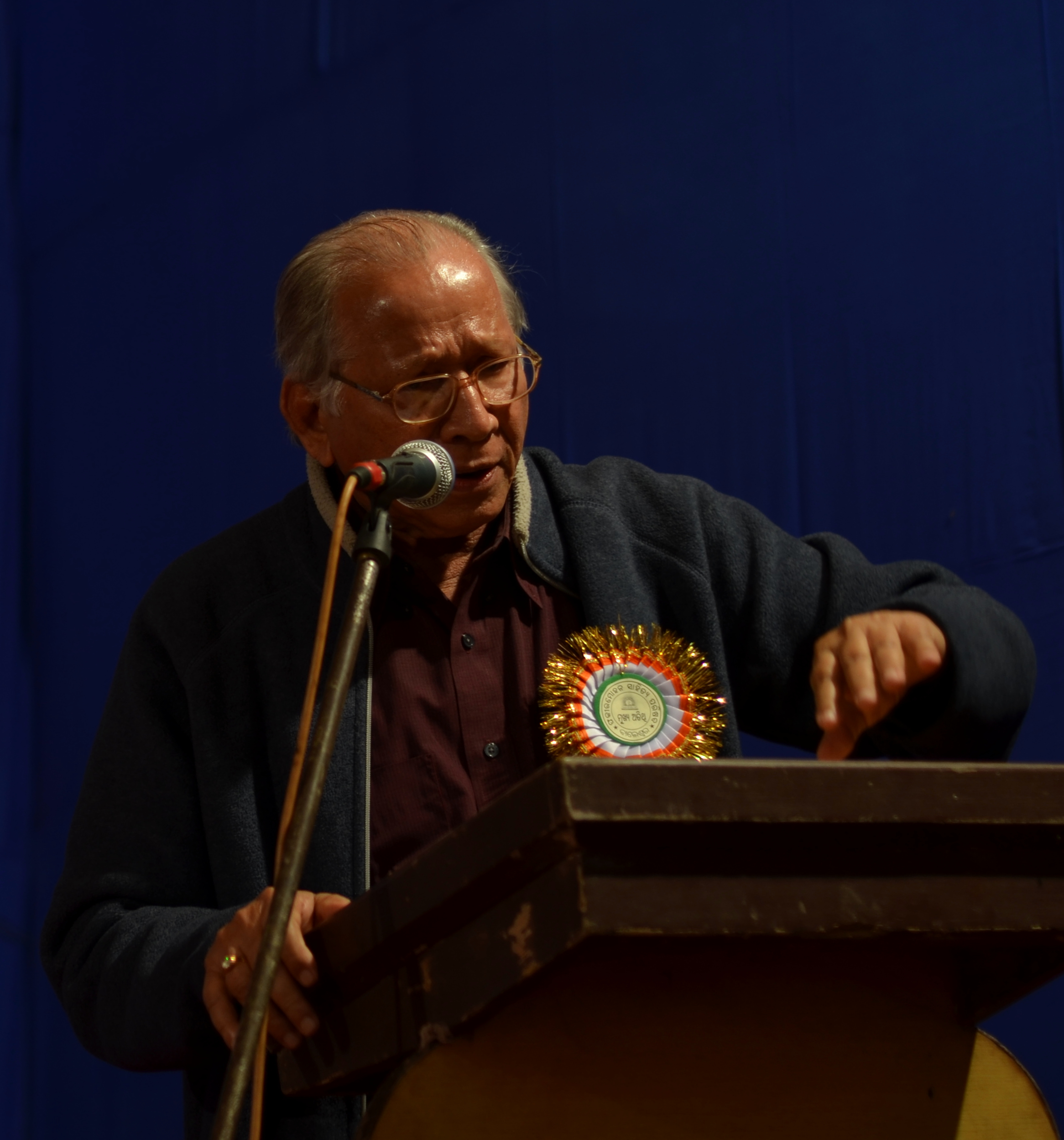 Santanu Acharya during Fakirmohan birthday celebration, Santikanana, Baleswar, Odisha 14-01-2014